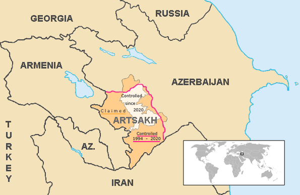 Map of the claimed and controlled territories of Nagorno-Karabakh